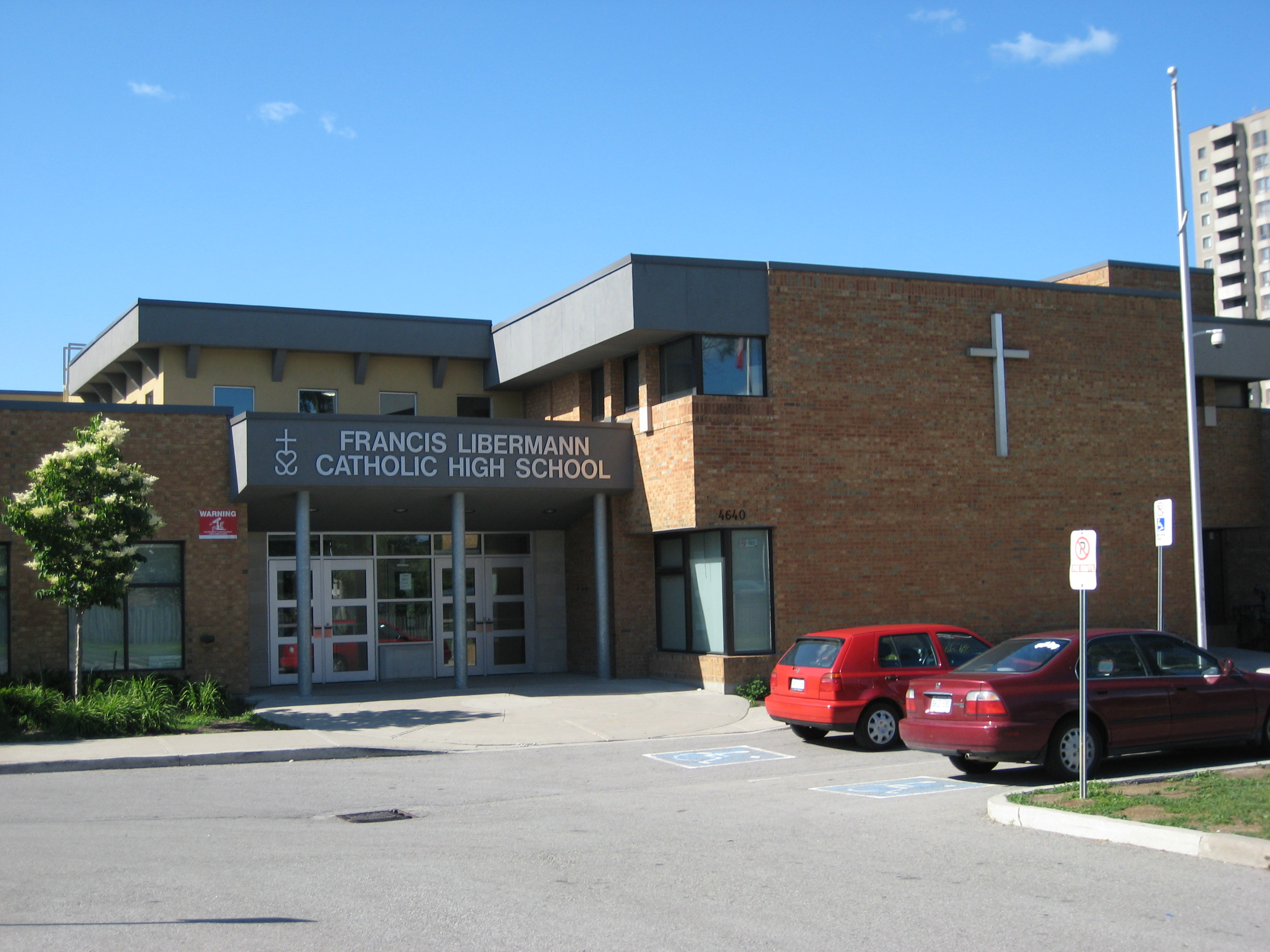 Francis Libermann Catholic High School